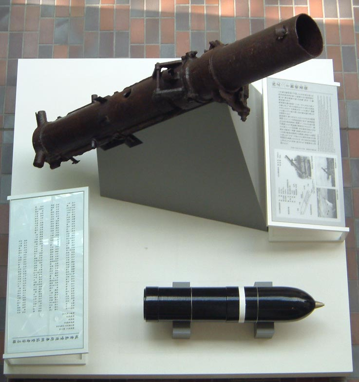 Japanese Type 4 203 mm (20 cm) Rocket Mortar at the Yasukuni Shrine.